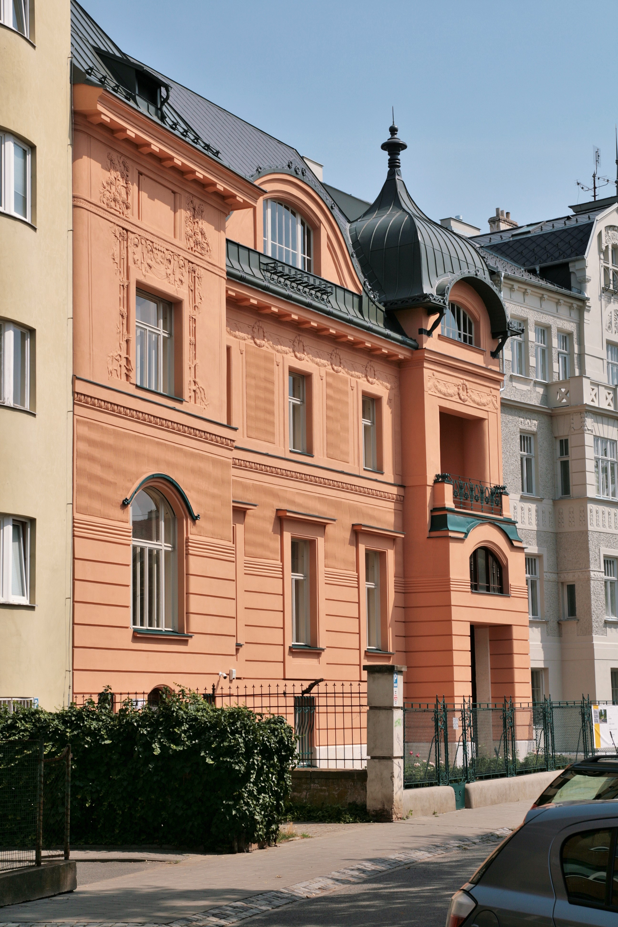 Villa Löw-Beer, Drobného street no. 22, Brno, Czech Republic.